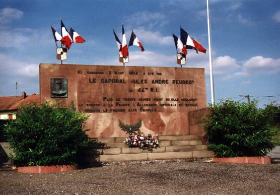 Caporal Peugeot Memory